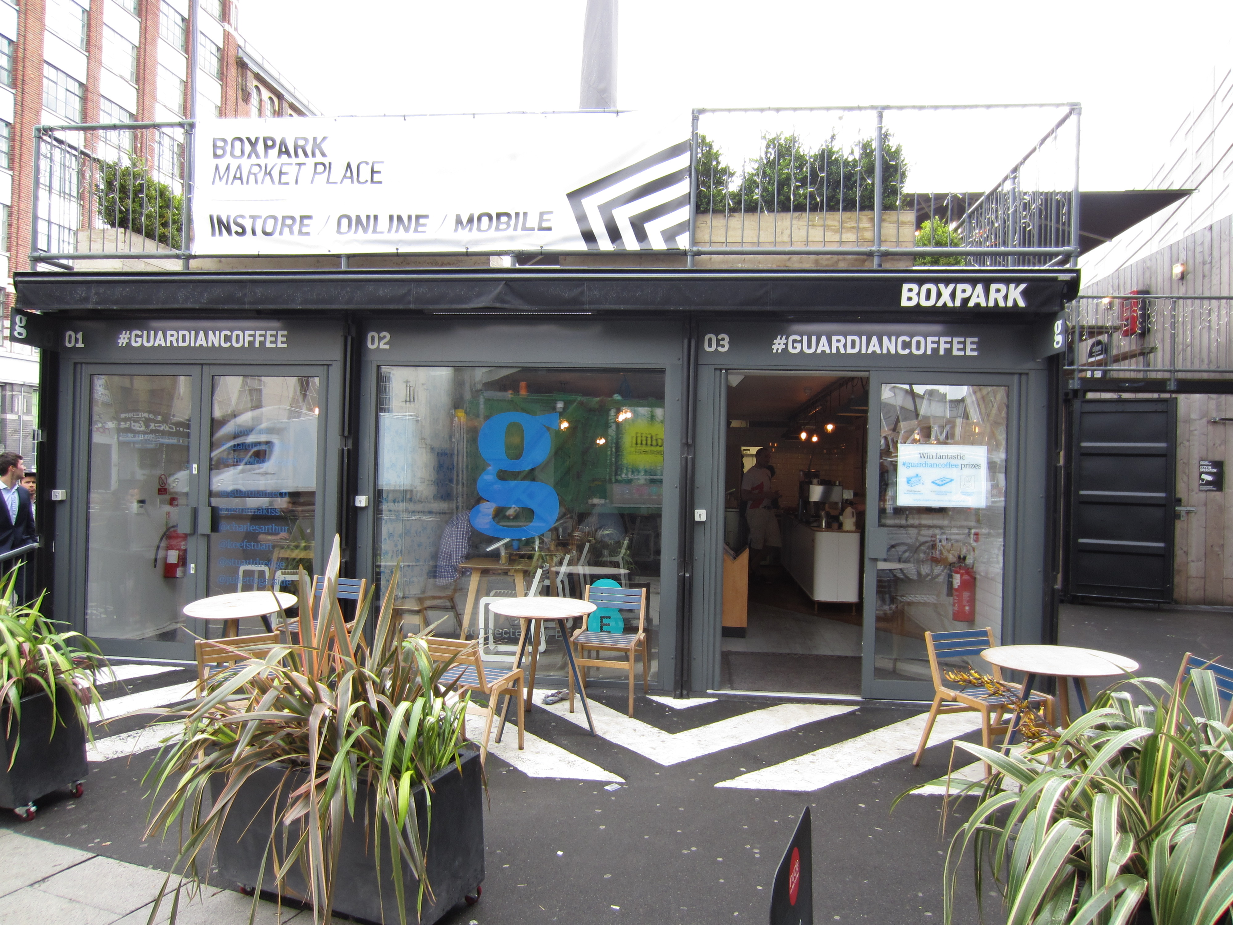 guardiancoffee at Boxpark in London